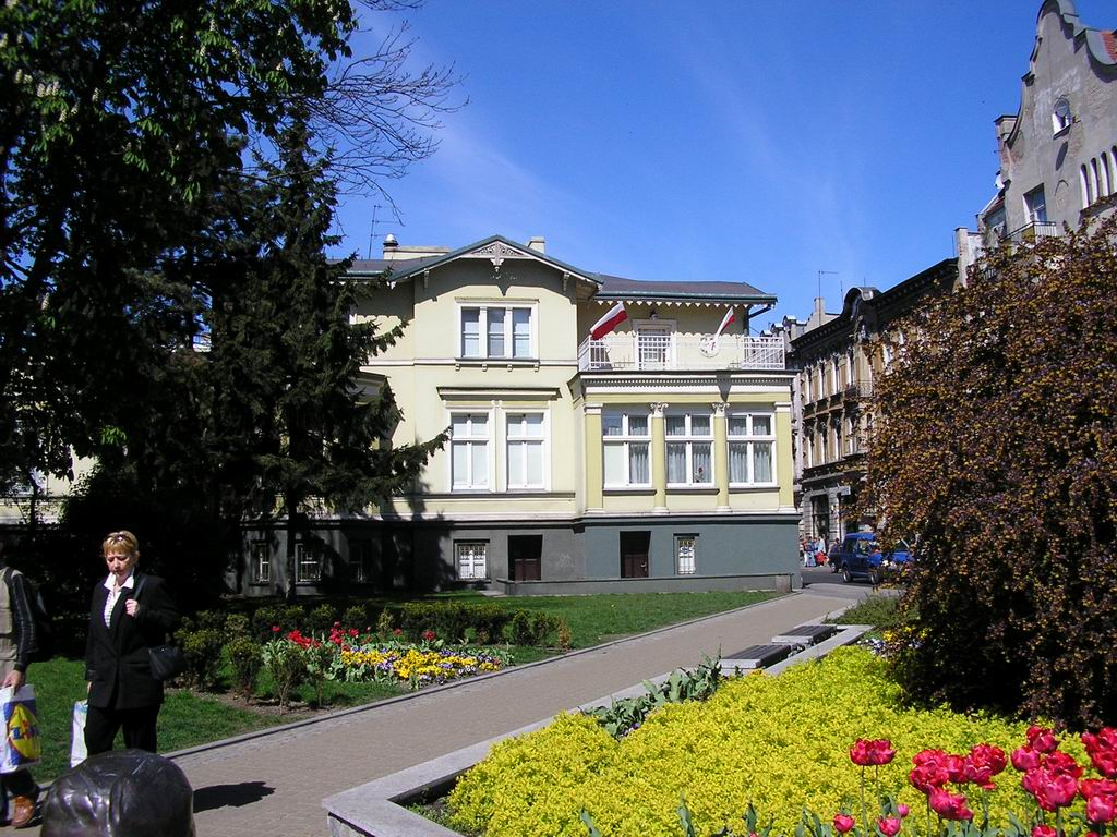 Aronsohn's willa